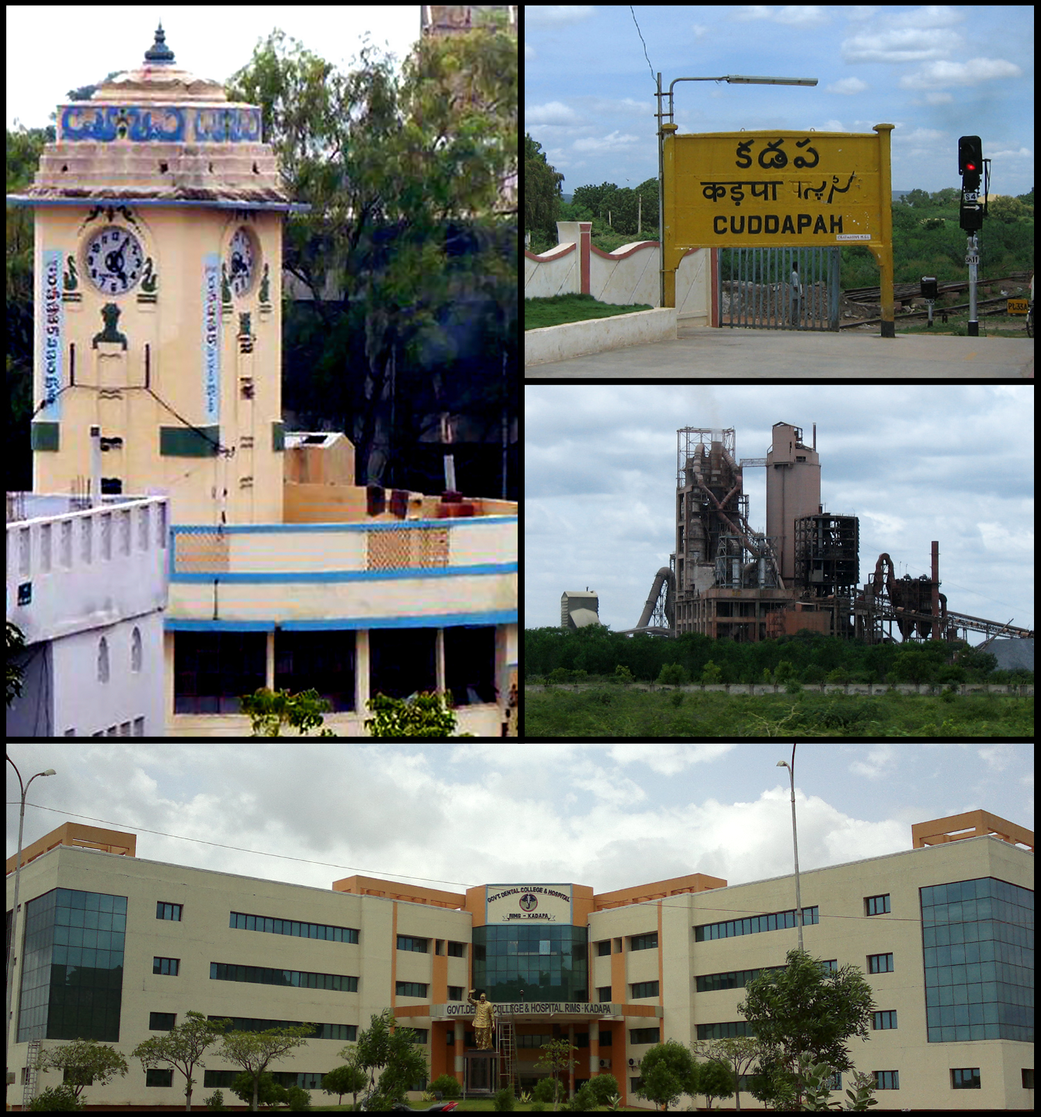 Montage of Kadapa city with Images from wikimedia commons